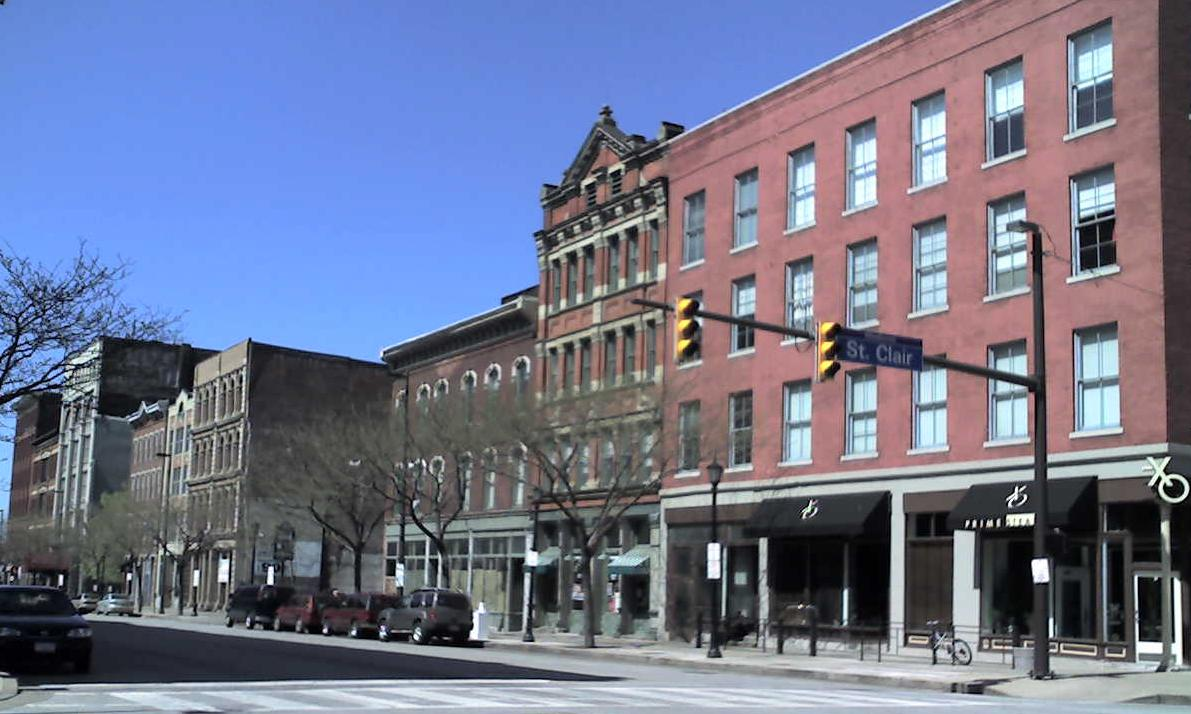 Downtown Cleveland - Historic Warehouse District - NE corner of W. 6th Street and St. Clair Avenue